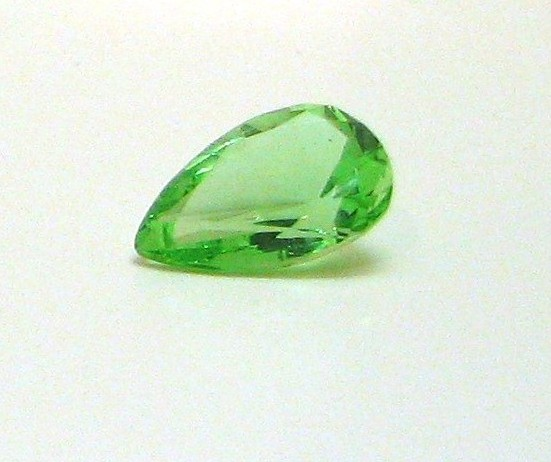 Diamond copy of the famous Dresden Grün from the "Reich der Kristalle" museum in Munich